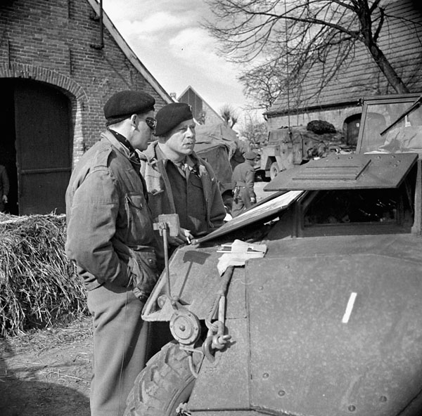 Brigadier R.W. Moncel (left) and Major-General Christopher Vokes, General Officer Commanding 4th Canadian Armoured Division,observing a German counter-attack, Sogel, Germany